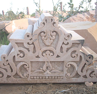 Banshi pahadpur Stone Caving. demo image, use for indidan temple.